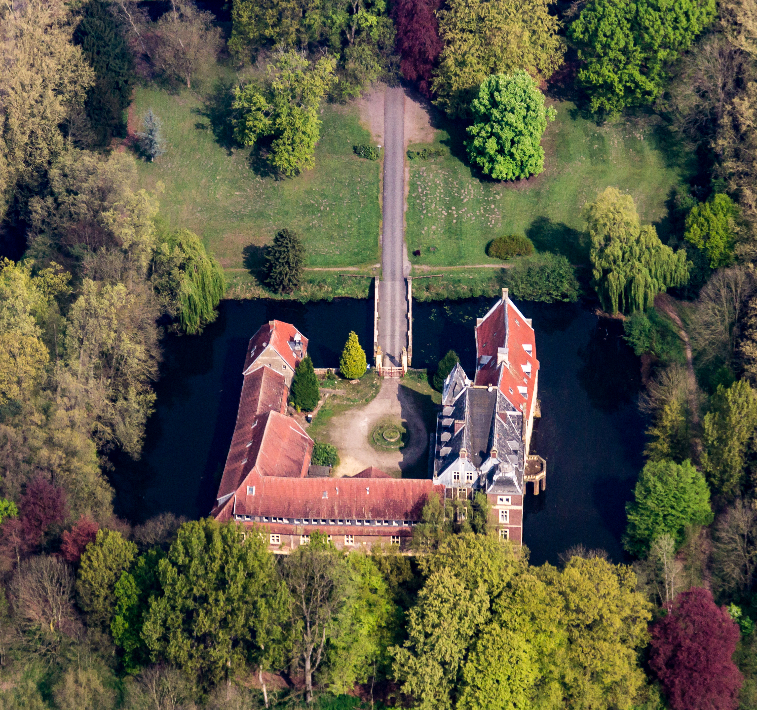 Senden, North Rhine-Westphalia, Germany